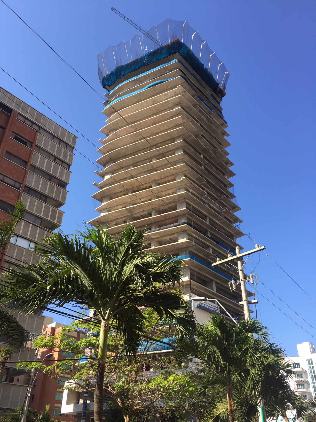 The Icon building, Barranquilla, Colombia, February 3, 2019